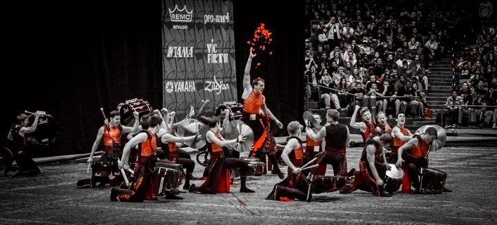 Rhythm X's winning 2013 show.